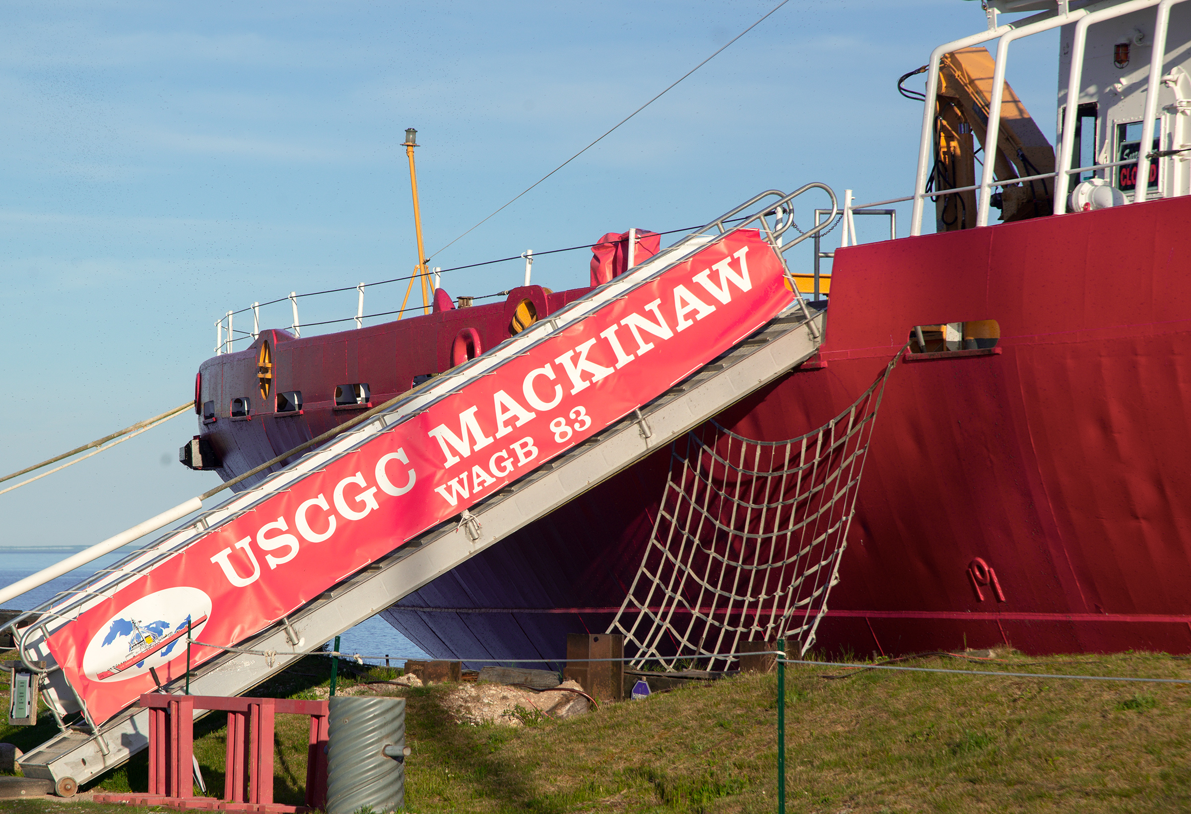 USCGC Mackinaw (WAGB-83)